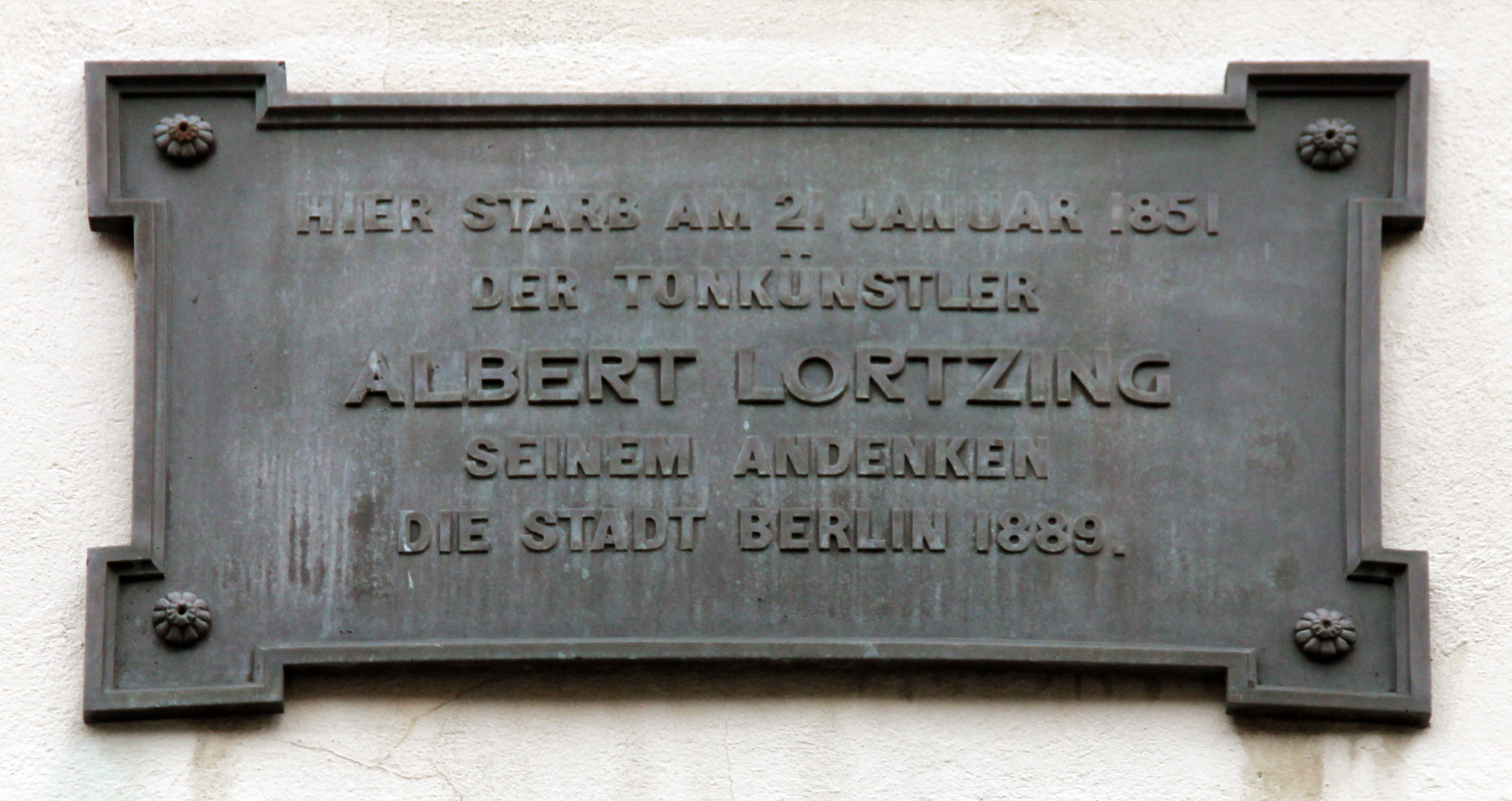 Memorial plaque, Gustav Albert Lortzing, Luisenstraße 53, Berlin-Mitte, Germany Koordinate:52°31′32″N 13°22′44.8″E / 52.52556°N 13.379111°E